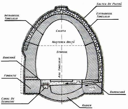 own work after a drowing, in romanian language the compontents of a tunnel